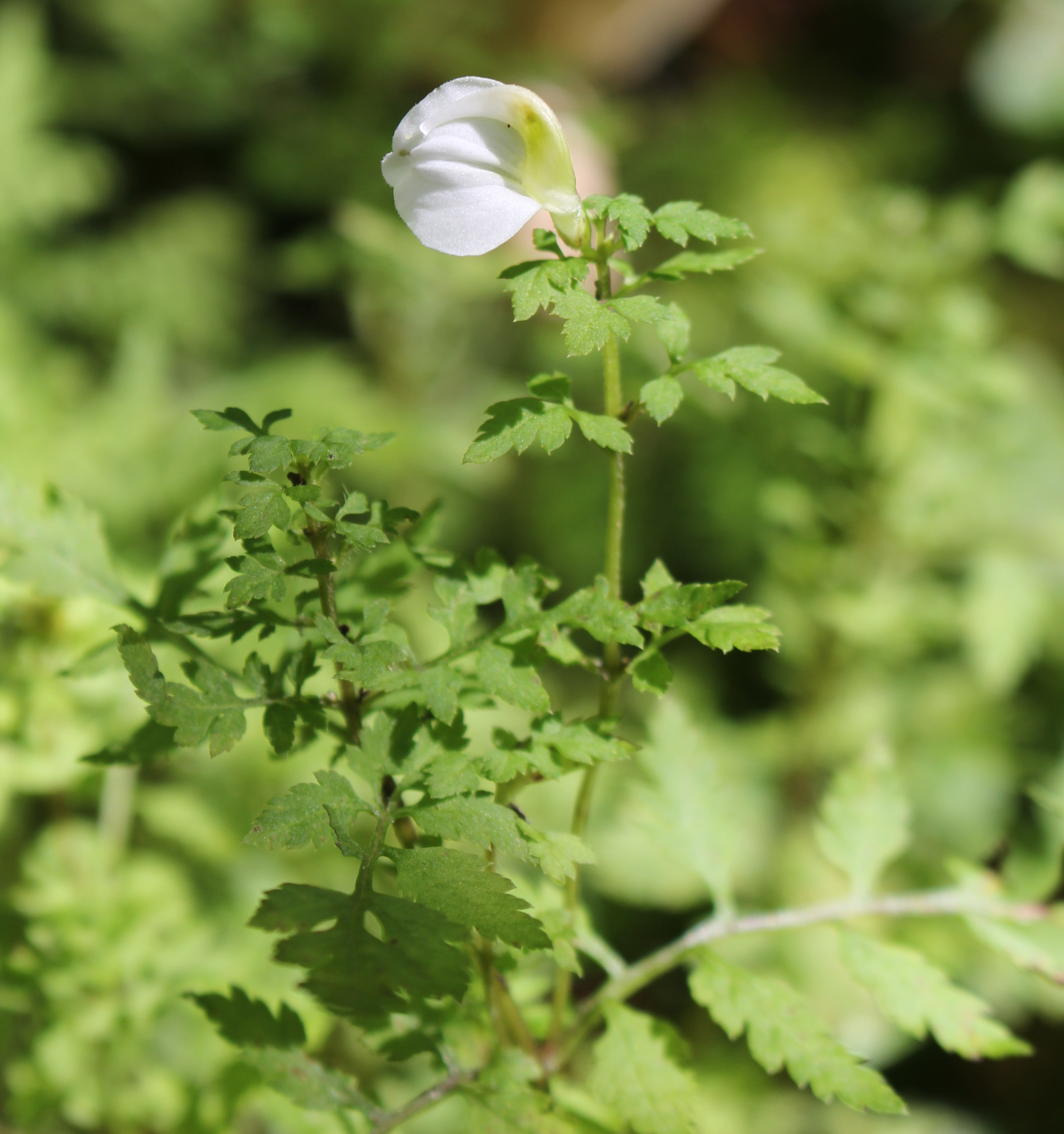 Pedicularis keiskei in Akaishi Mountains, Japan.